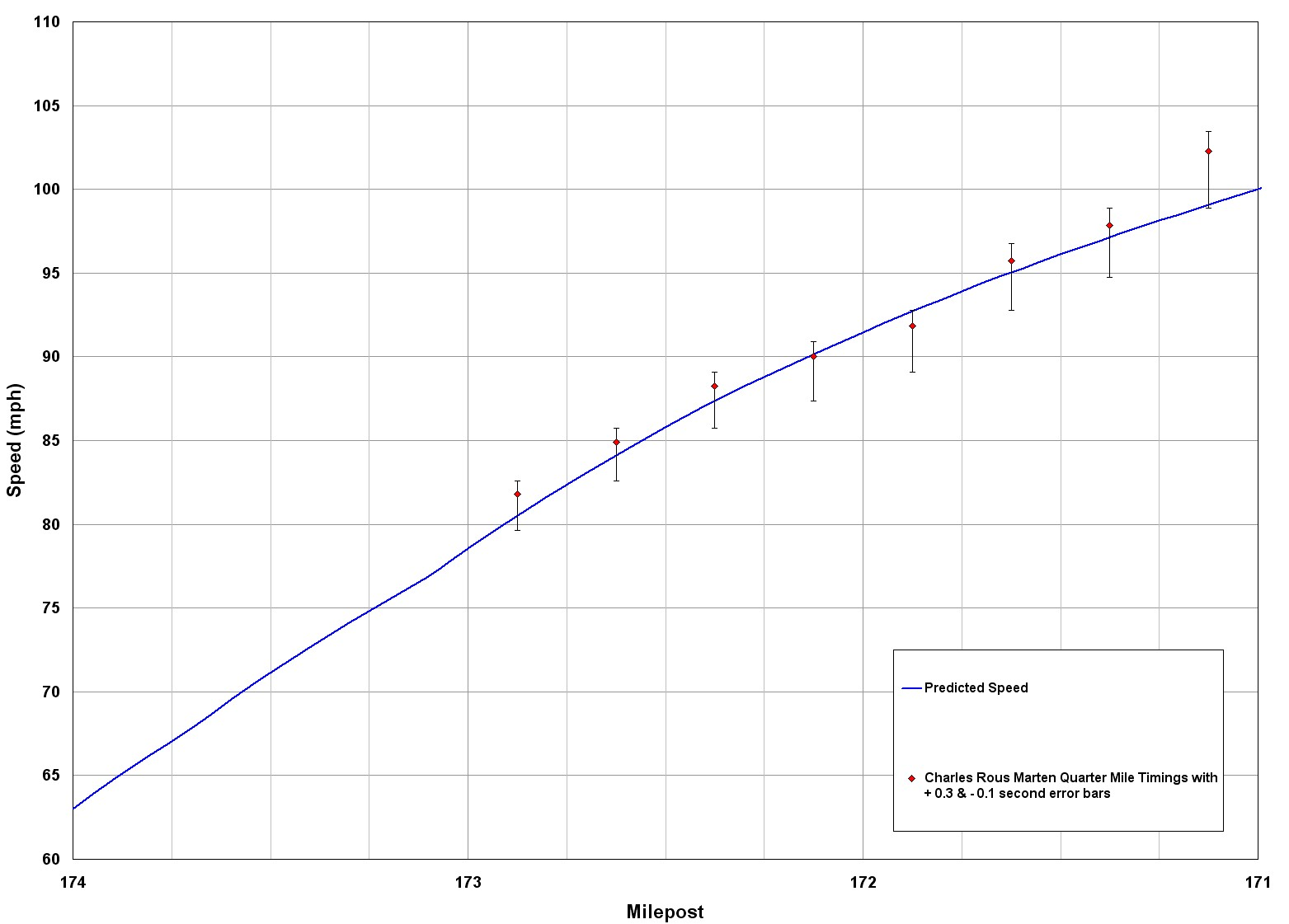 Comparison of computer simulation of 3440 City of Truro's acceleration to 100mph with quarter mile timings made by Charles Rous Marten.